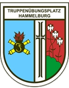 coat of arms military training area